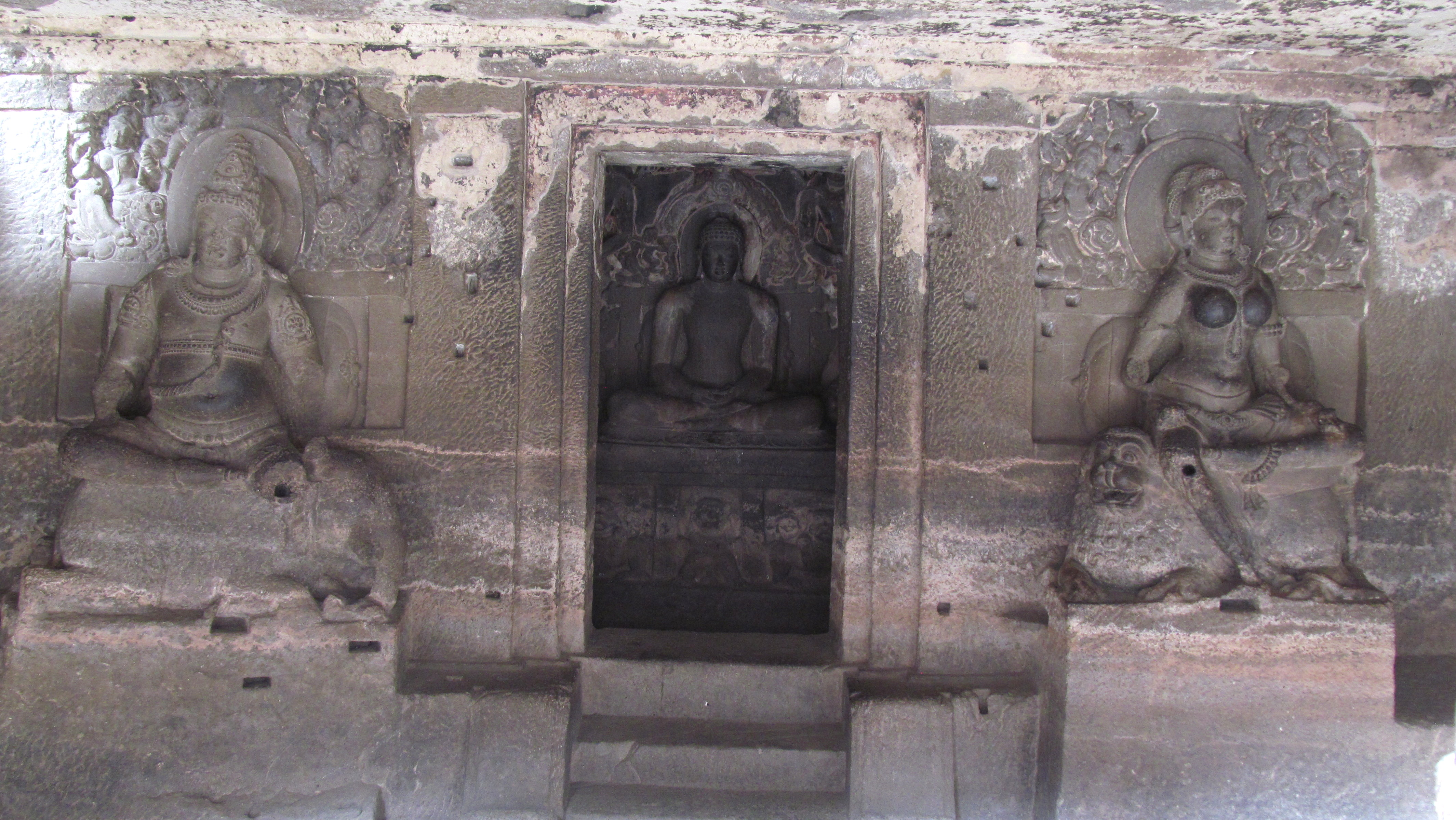 Cave #32, Mahavira flanked by Indra and his wife